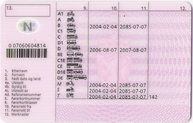 This is a scanned version of my norwegian drivers licence. This is the back of the card, my social security number and licence number are manipulated for privaty reasons.